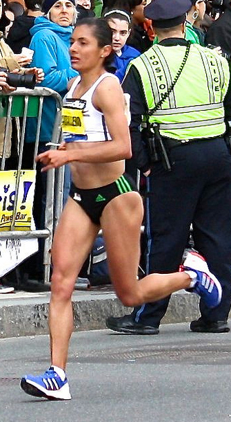 Copyright © 2013 Sonia Su. Boston Marathon.